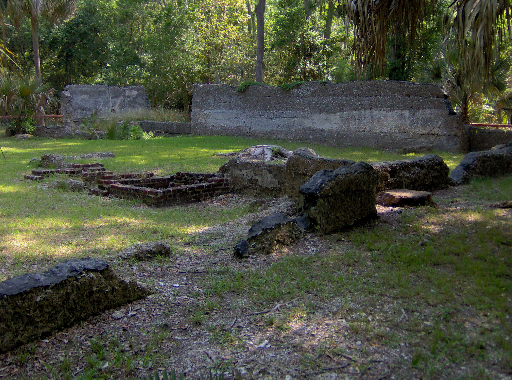 The ruins of Noble Jones' tabby fort at the Wormsloe Historic Site near Savannah, Georgia, in the southeastern United States. Construction of the fort began in 1739 and was completed in 1745. The walls were originally 8 feet (2.5m) high. The house faced the Skidaway Narrows. The remants of a cellar, well, and hearth are found within the wall ruins.